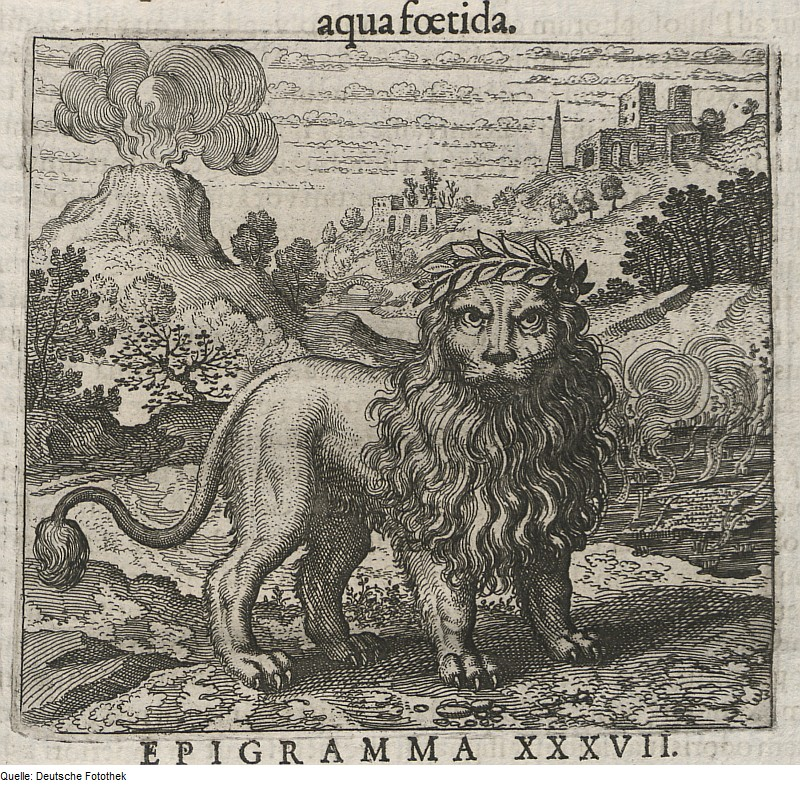 The green lion, alchemical allegory for vitriol. Engraved plate by Theodor de Bry for Michael Maier's ‚Atalanta Fugiens‘.